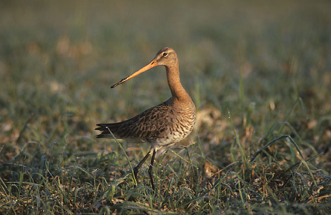 Black-tailed Godwit